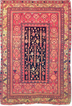 "Jayirli" Carpet of Azerbaijan. Shirvan group.